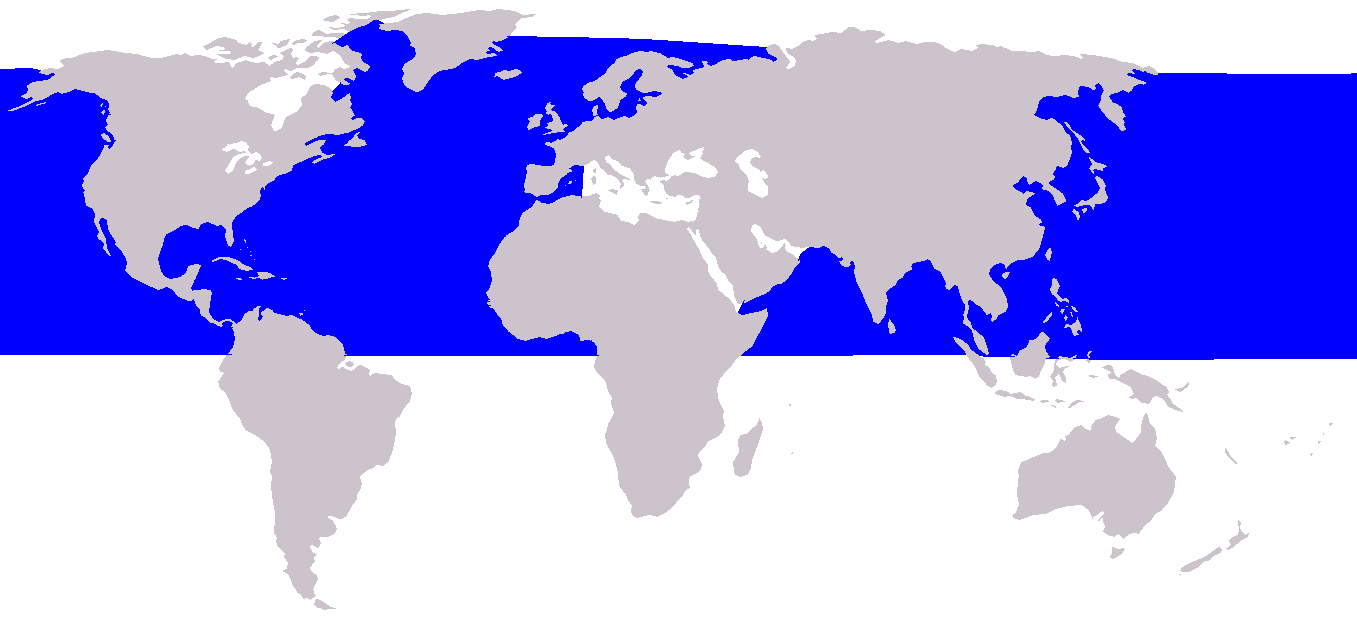 Cetacea_range_map_Minke_Whale. user:Pcb21 after user:Vardion, see Wikipedia:WikiProject Cetaceans